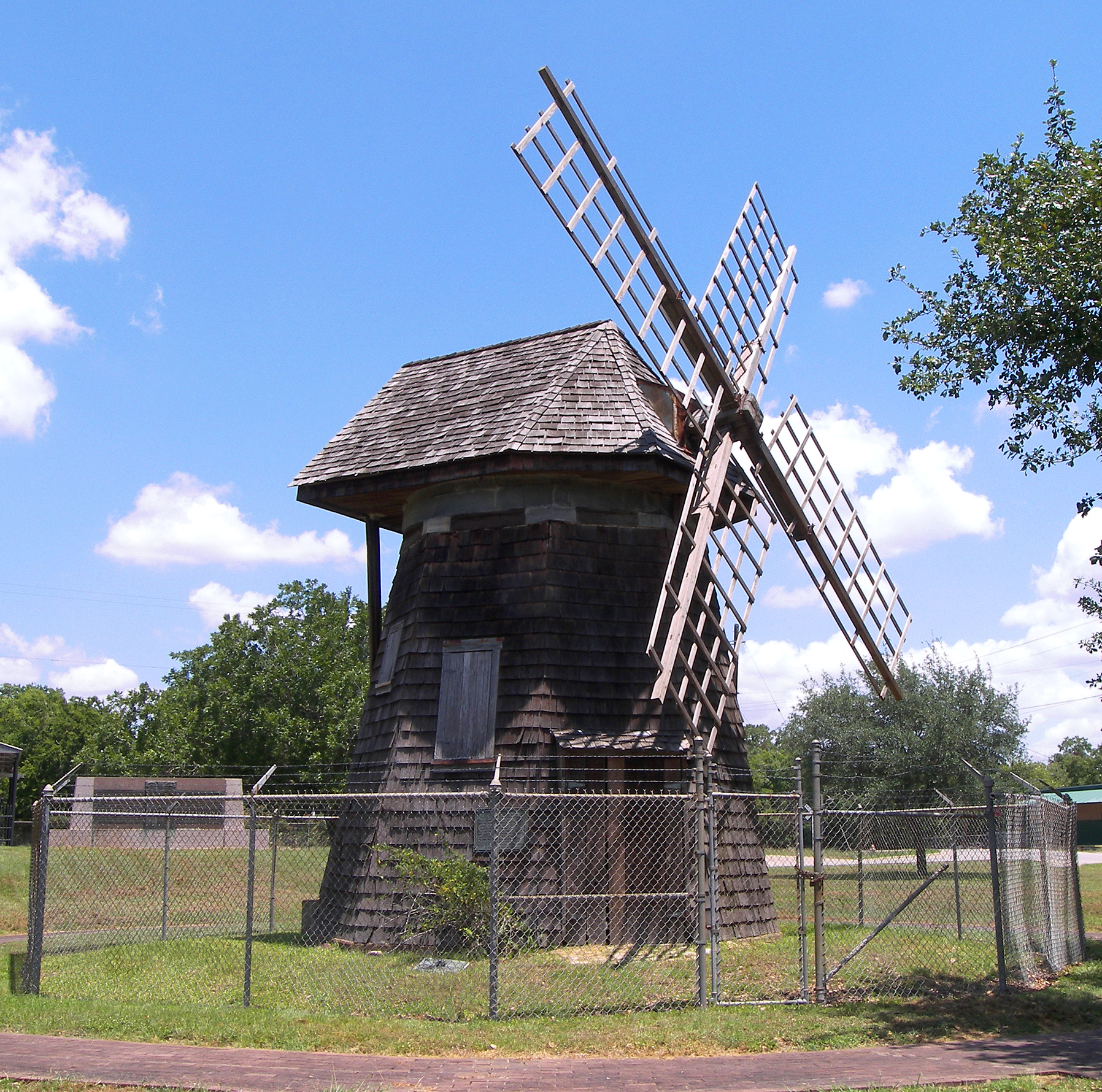 The Victoria Grist Windmill located in Victoria, Texas, United States. The windmill was added to National register of Historic Places on April 30, 1976.